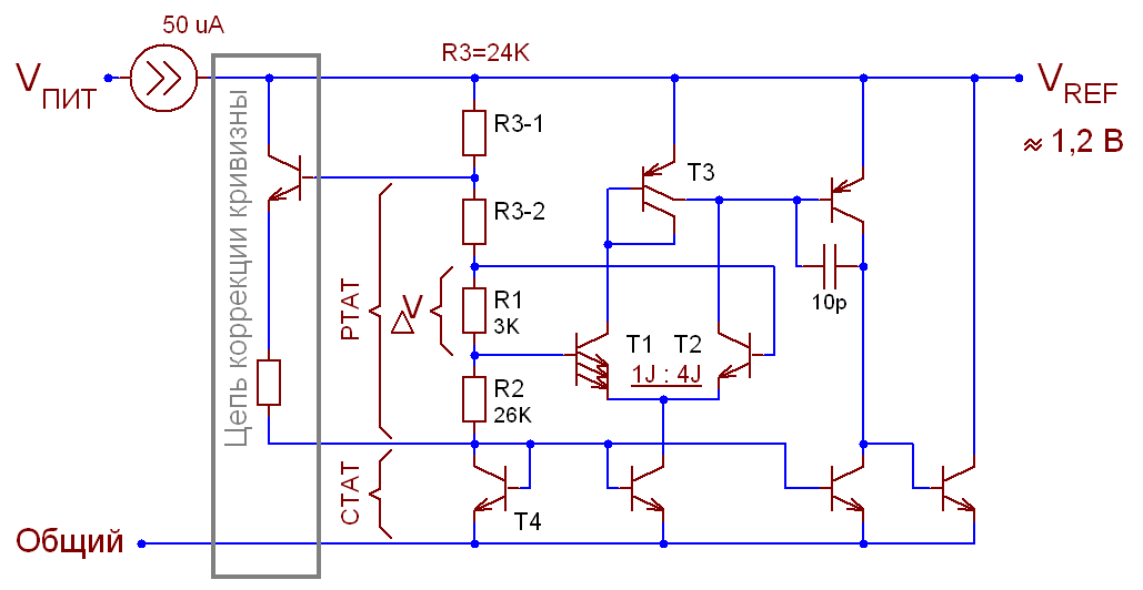 The second-generation Widlar bandgap reference (ca.1977 - this circuit evolved into the LM10 reference) including curve correction network (box on the left).